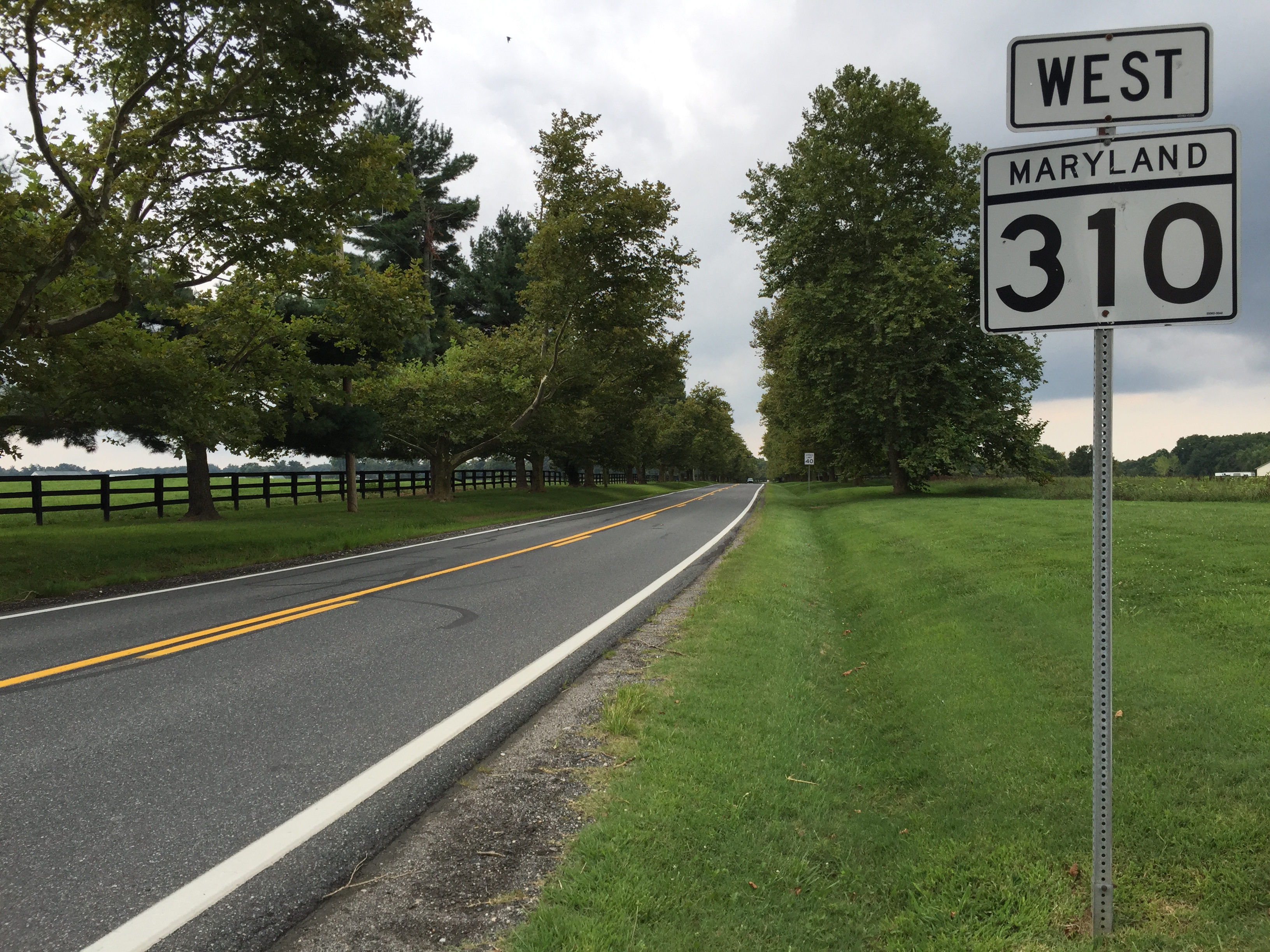 View west along Maryland State Route 310 (Cayots Corner Road) at Maryland State Route 342 (Saint Augustine Road) in Saint Augustine, Cecil County, Maryland